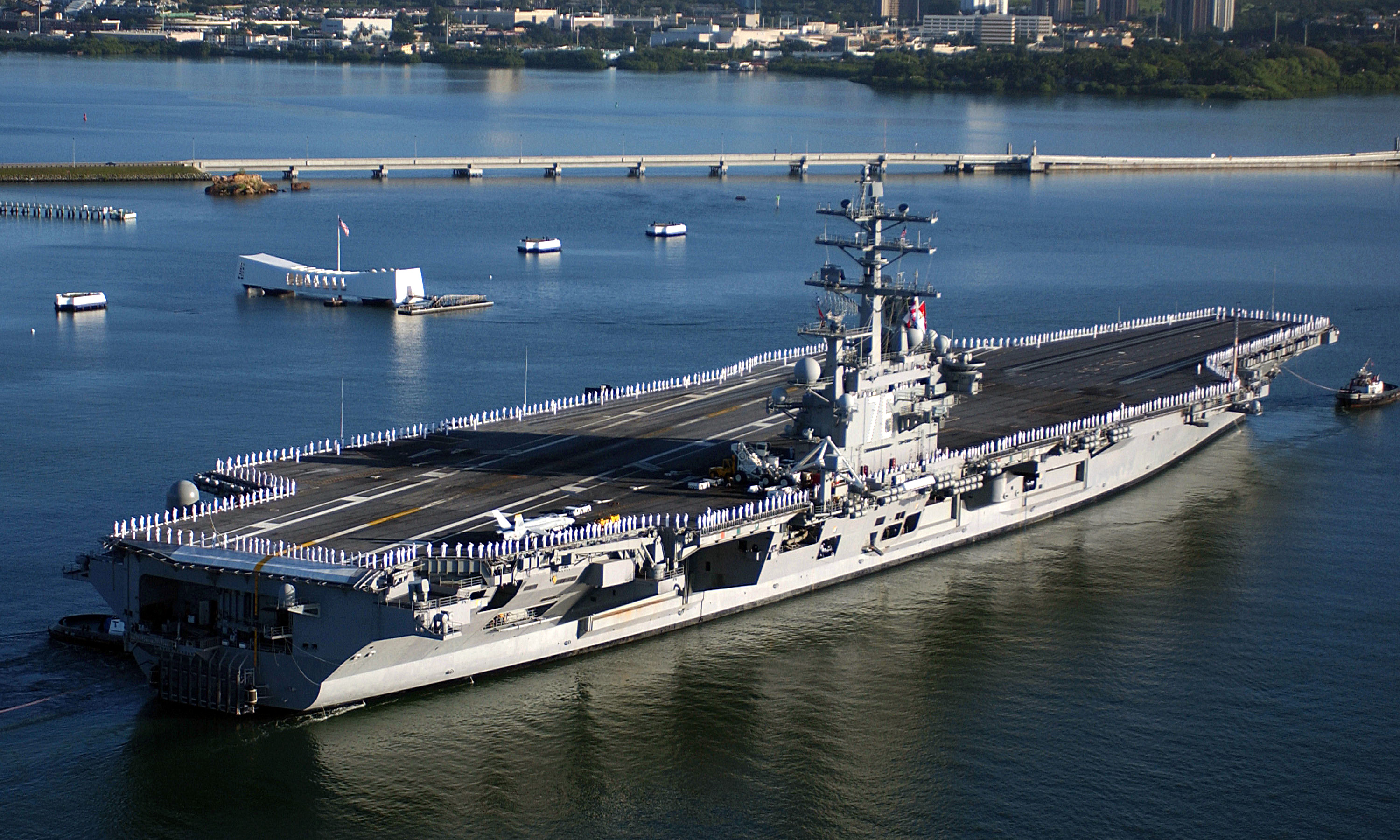 Pearl Harbor, Hawaii (Jan. 22, 2005) - Sailors man the rails and render honors to the USS Arizona Memorial as the Nimitz-class aircraft carrier USS Ronald Reagan (CVN 76) pulls into Naval Station Pearl Harbor, Hawaii. Ronald Reagan's first port visit to Hawaii is in support of Operation Unified Assistance, the humanitarian operation effort in the wake of the Tsunami that struck South East Asia. U.S. Navy photo by Photographer’s Mate 1st Class James Thierry (RELEASED)